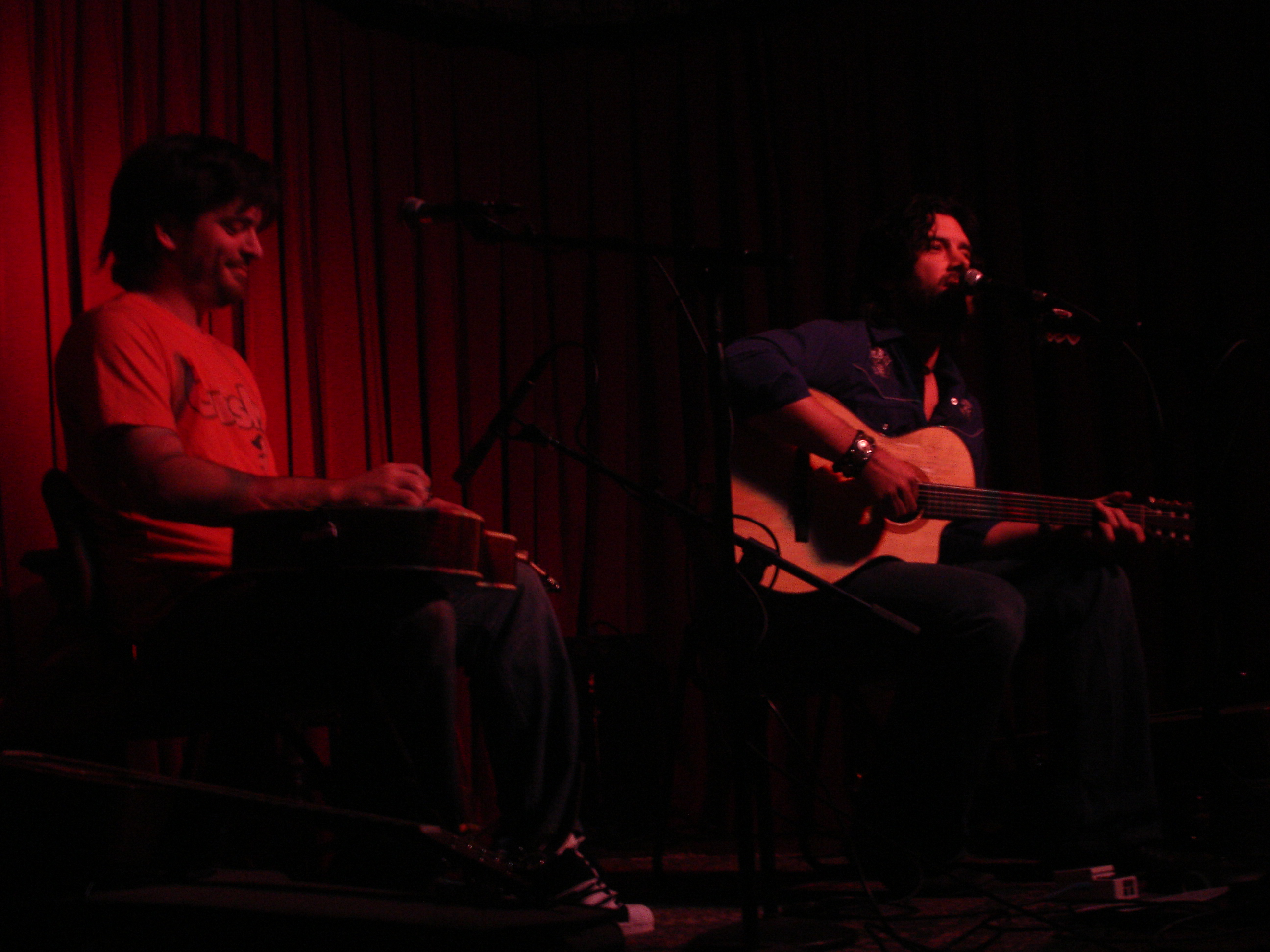 Bob Schneider (right) and Jeff Plankenhorn performing at the Cactus Cafe on the campus of the University of Texas at Austin. Transferred from English Wikipedia, originally uploaded on 2005-11-10